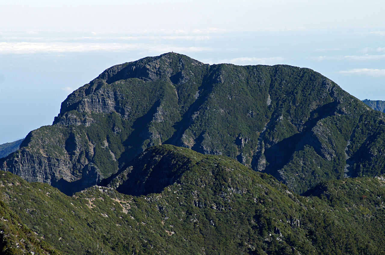 Hsueh Mountain Northen Peak 台灣雪山北峰